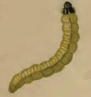 Stainton’s Natural History of the Tineina (1855–1873): Cosmopterix orichalcea